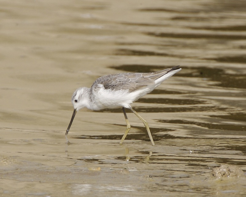 Marsh Sandpiper Tringa stagnatilis, El Fayoum, Egypt